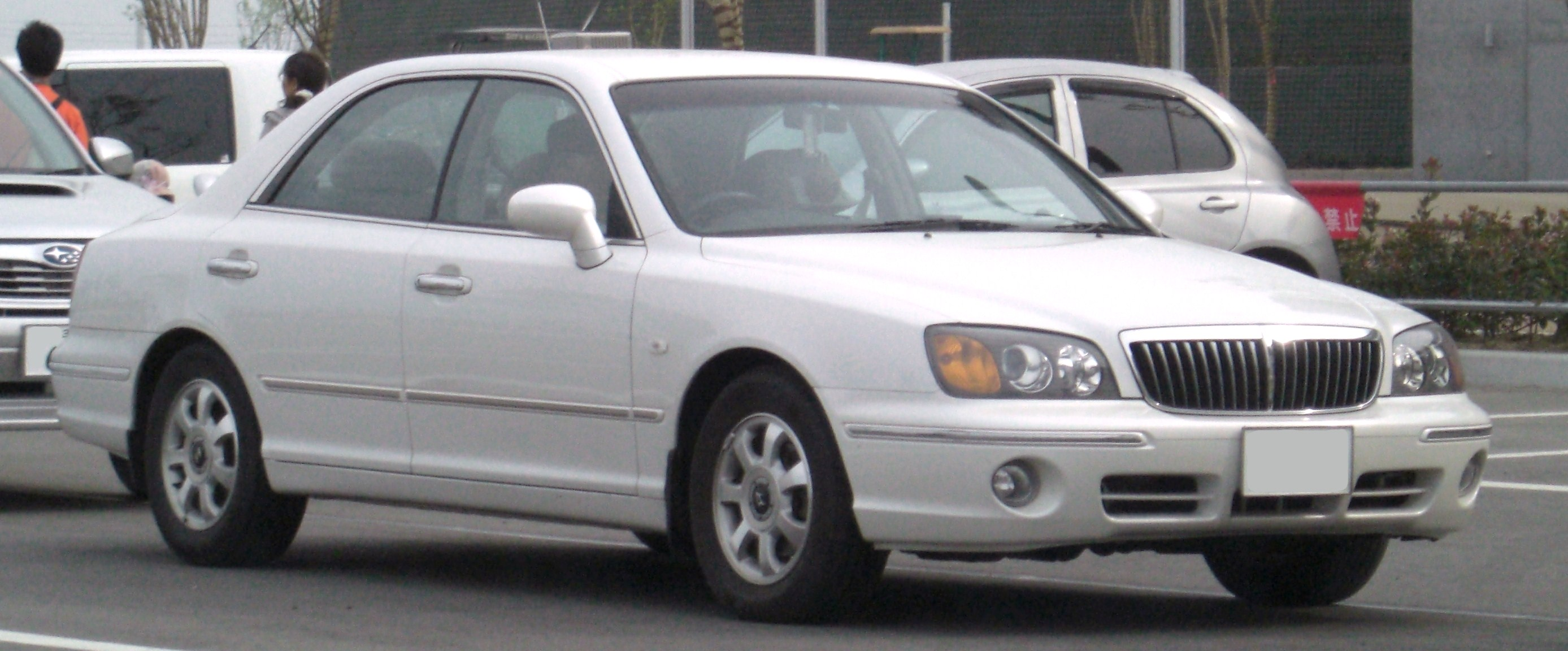 Hyundai XG